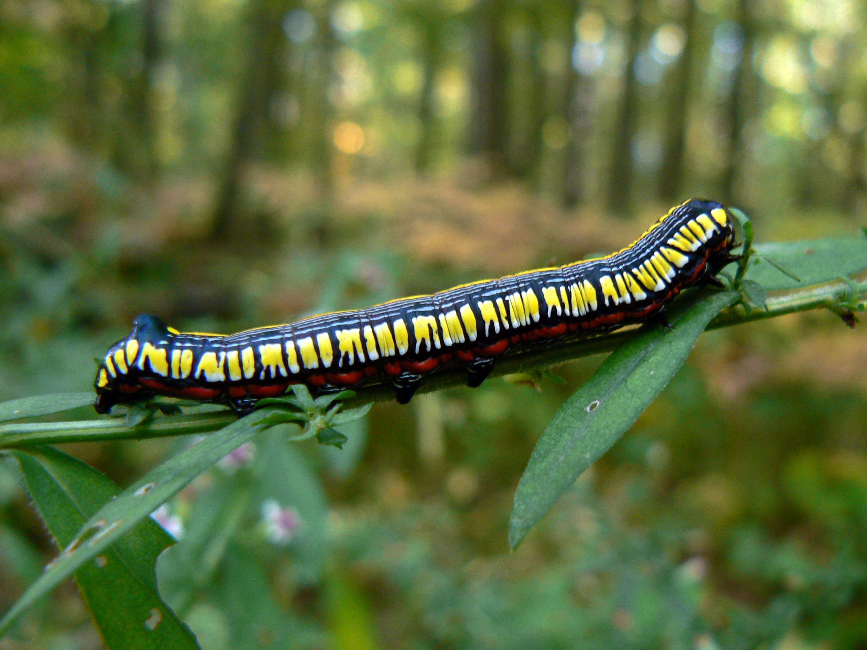 Caterpillar of Cucullia convexipennis. This super-colorful caterpillar turns into a fairly dull moth.